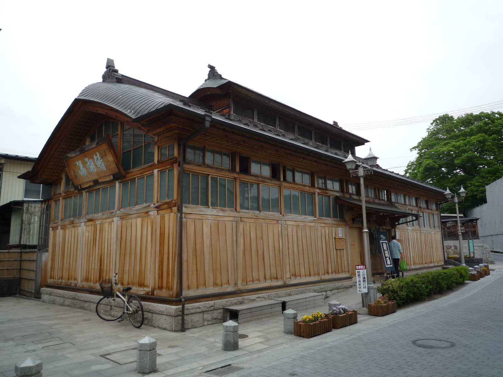 Iizaka hot spring(Fukushima city),Sabakoyu(pubric bath)